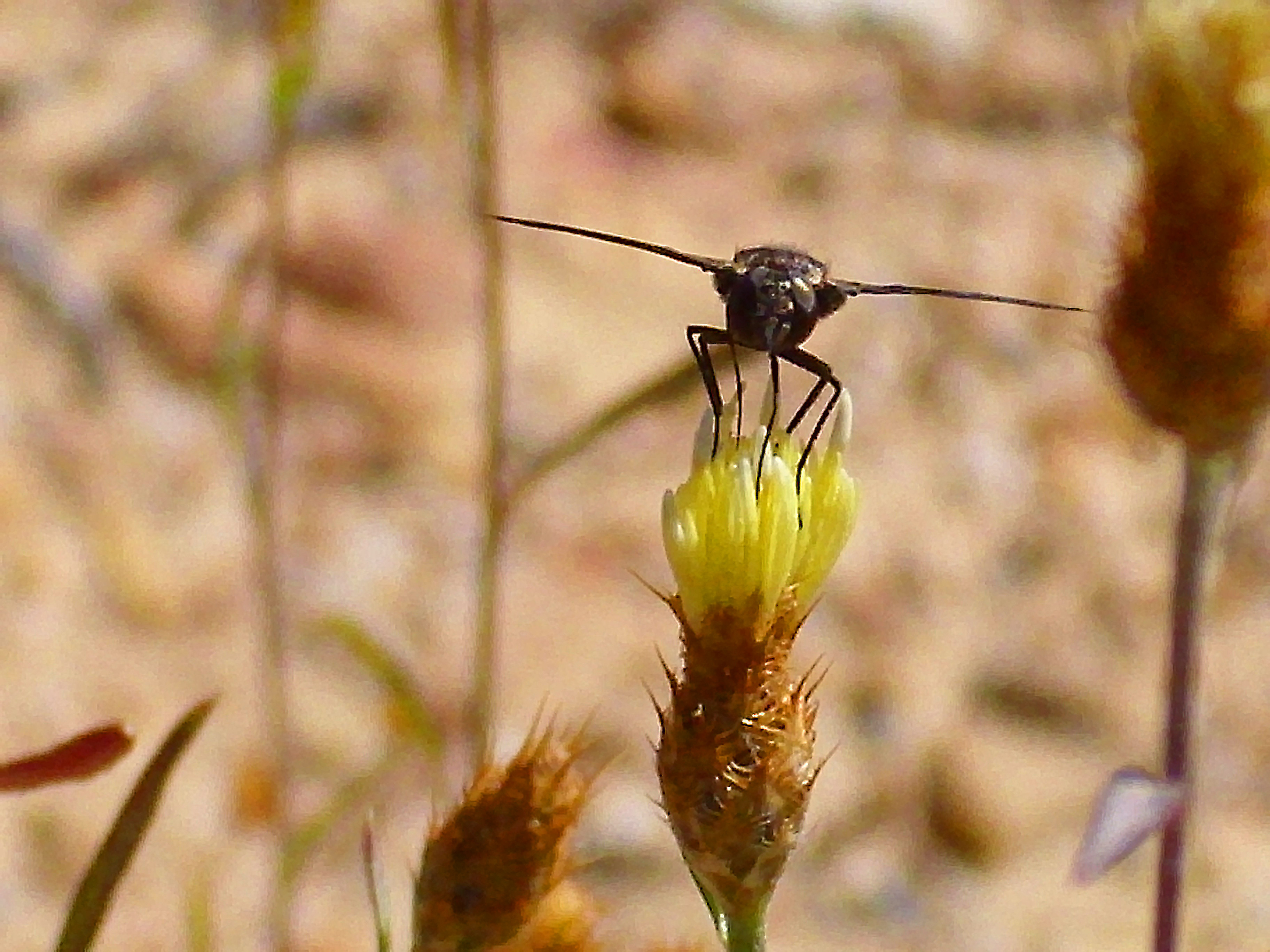 Centaurea x tatayana polinator, Sierra Madrona, Spain